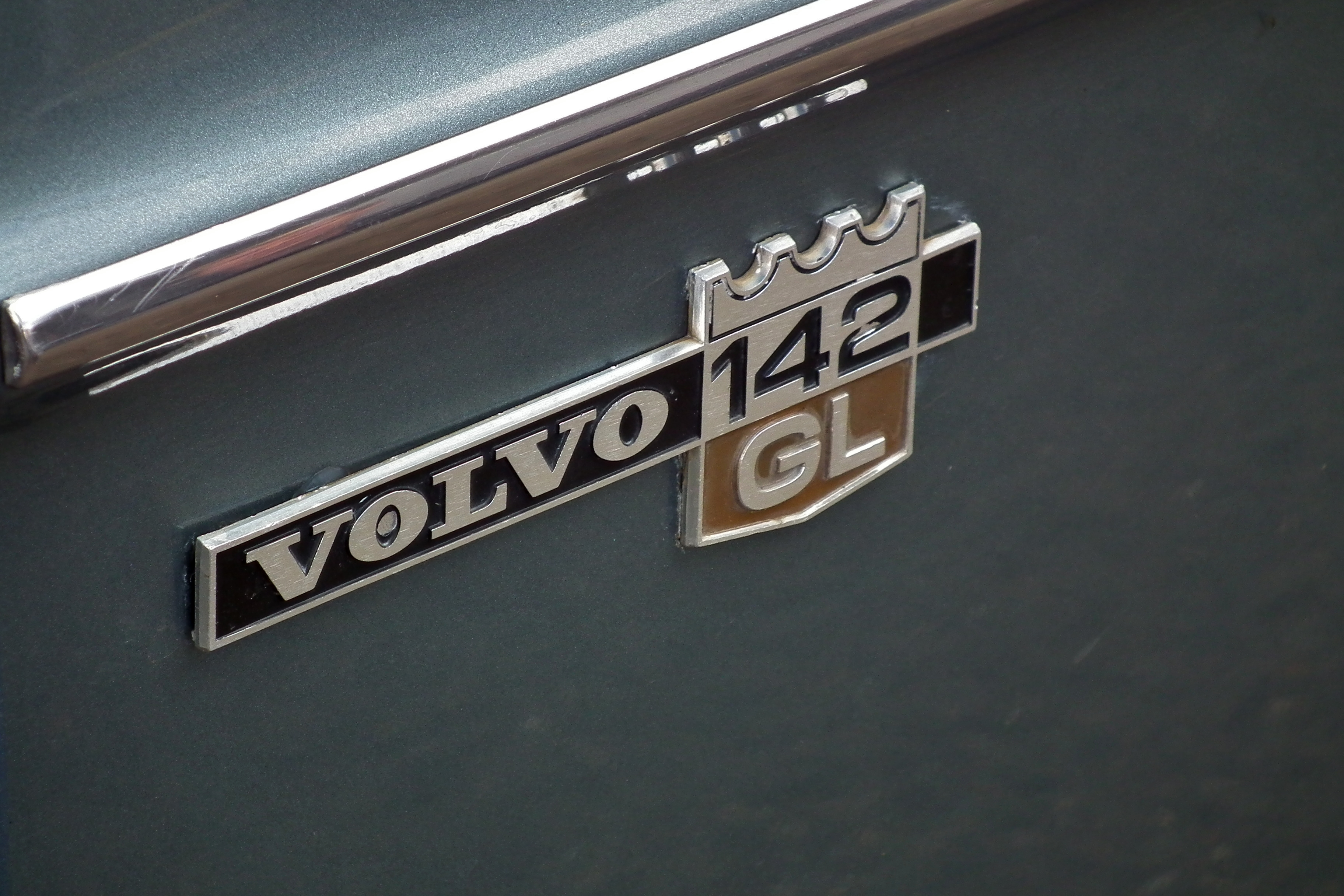 1970 Volvo 142 GL sedan front guard badge. Taken at Shannon's Eastern Creek Classic 2011, held at Eastern Creek Raceway Sydney.